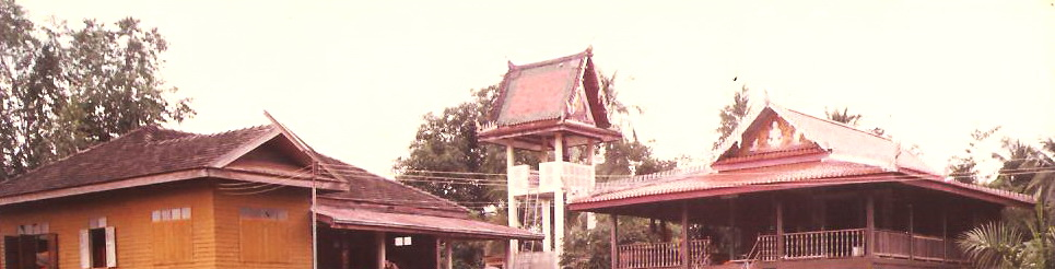 Wat Khung TaphaoLocation: Wat Khung Taphao Ban Khung Taphao, Khung Taphao subdistrict, Mueang Uttaradit, Uttaradit Province, Thailand.